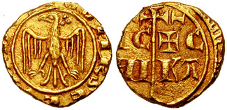 Italy, Norman Kings of Sicily. Conrad II (Conradin). 1254-1258 and 1267-1268. AV Tari (1.67 gm). Messina mint. Eagle facing with outstretched wings, head left; \ to right IC +C NI KA around cross. Cf. Spahr 164; cf. MEC 14, pg. 189. EF. Extremely rare. Conrad II was only two years old when his father, Conrad I died, and the boy spent his youth at the royal court in Bavaria, while first Berthold and then Manfred ruled in Sicily as his regents. Manfred deposed Conrad II in 1258, but it was not until 1267 that the rightful king could move against his uncle. Conrad II was defeated and executed in 1268. His rare coinage probably belongs to the period of the regency, 1254-1258, but it is possible that it was struck during the brief foray of Conrad II into Italy in 1267-1268. There is a close stylistic similarity between this coin and the taris of Frederic II struck after his return to Italy in 1220, with its classicizing imperial eagle and the use of IC +C instead of the normal IC XC. Was Conrad II invoking the memory of his grandfather upon his return to his Italian estates?